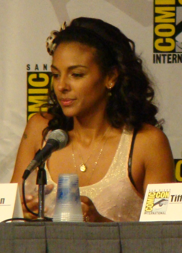 Marsha Thomason at the White Collar panel at the 2012 Comic-Con International